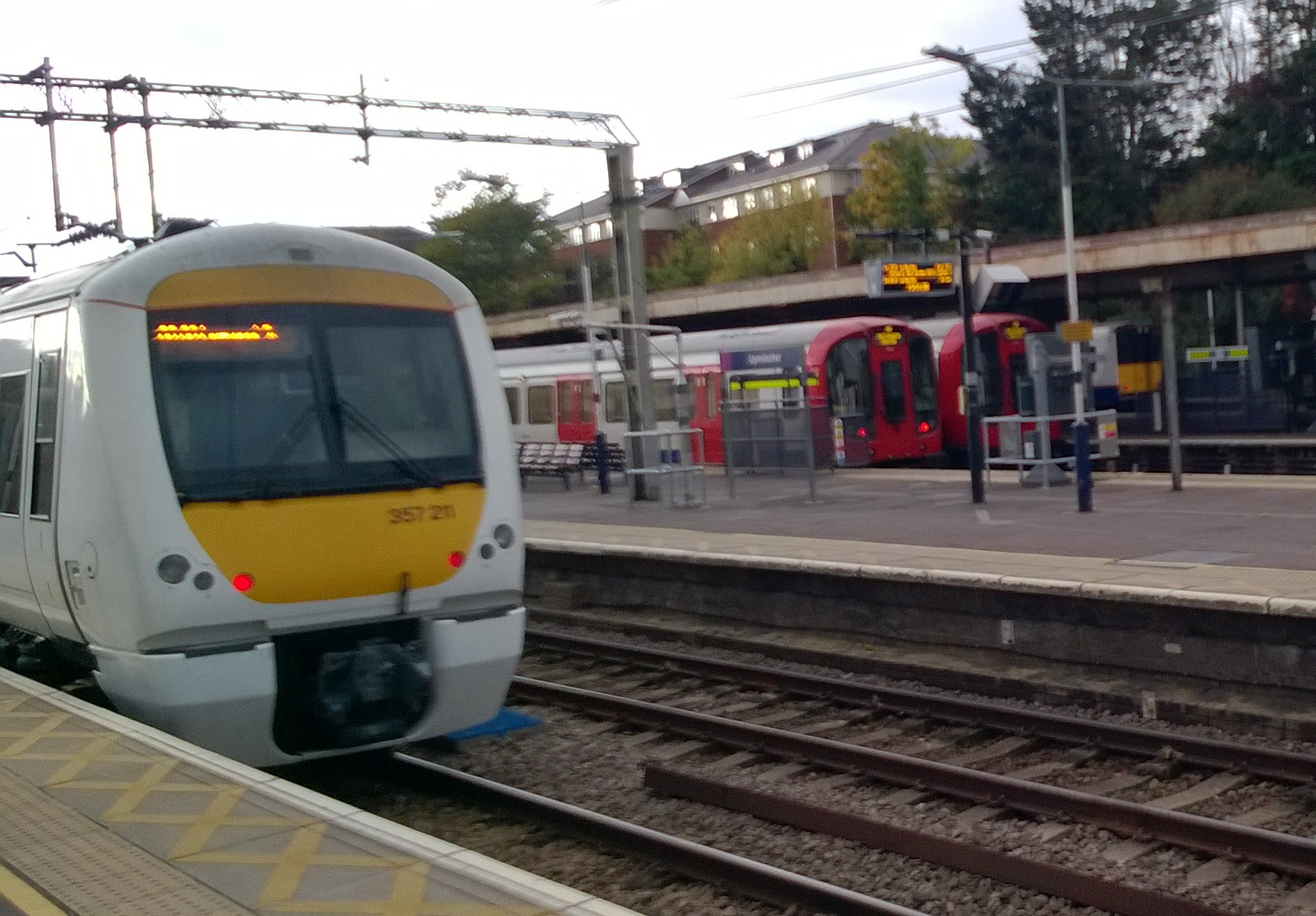 A c2c Class 357 Electrostar, a pair of London Underground S7 Stock and a London Overground Class 315 at Upminster station